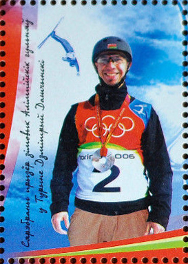 Part of Belarus souvenir sheet no. 52, commemorating "Belarus Sportsmen at the XX Olympic Winter Games in Turin". Dmitri Dashinski, the country's sole medal winner and silver medalist in men's freestyle skiing aerials.